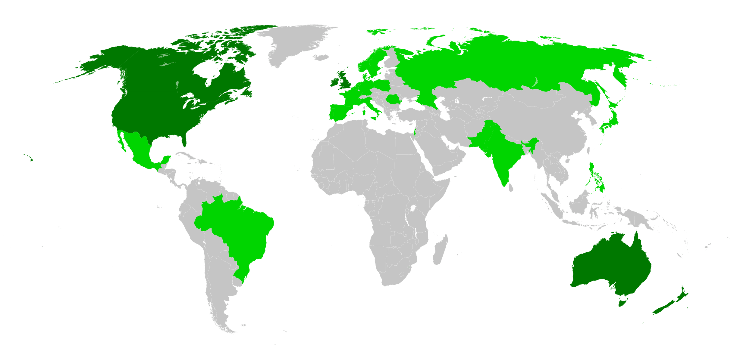 Top 25 countries from which Wikipedians contribute. Countries in which the majority of the population are native English speakers are in dark green; countries with English as a mostly second language are in light green. However, people in many other nations also contribute to the English Wikipedia. Countries where the majority are native English speakers are in dark green. Countries with English as a mostly second or third language are in light green.